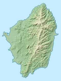 Map of Naxos Island